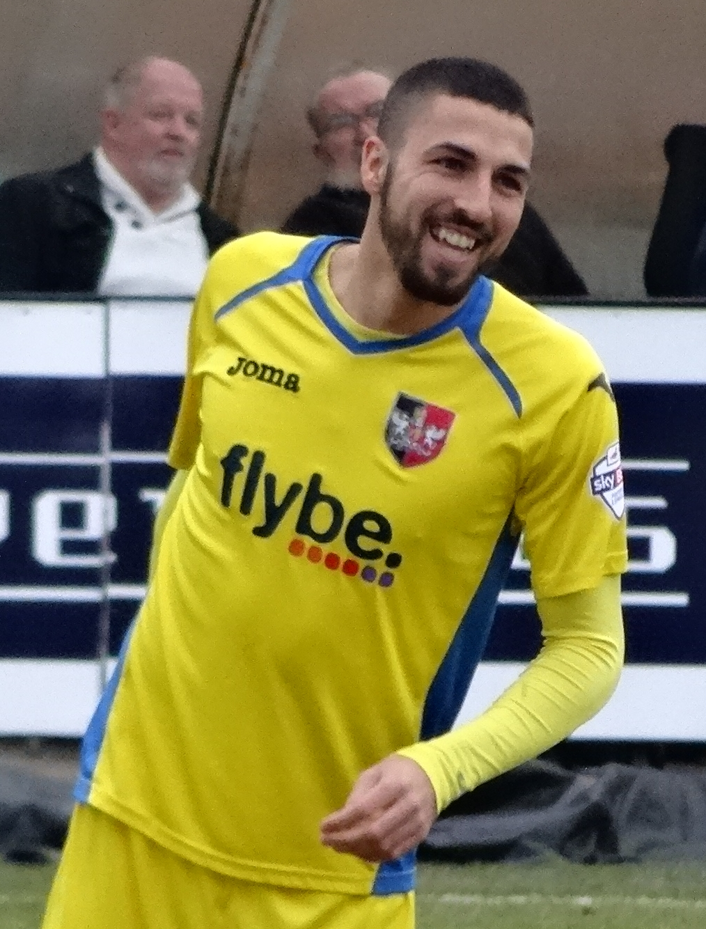 Liam Sercombe playing for Exeter City against York City at Bootham Crescent, York on 28 February 2015